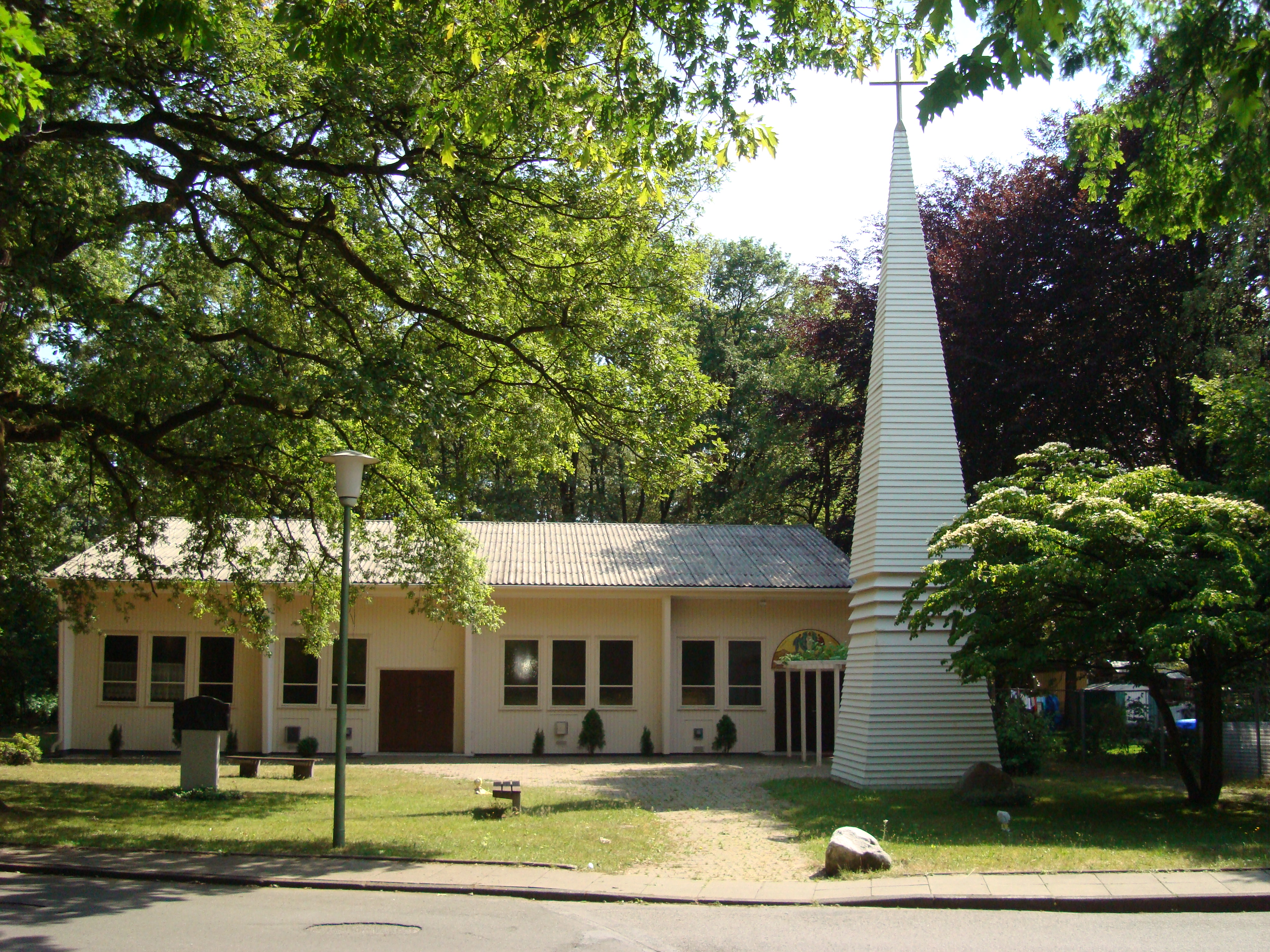 Orthodox Church in Bielefeld (Germany). The church is used by Russian and Serbian Orthodox Parishes. The church was built in 1962.